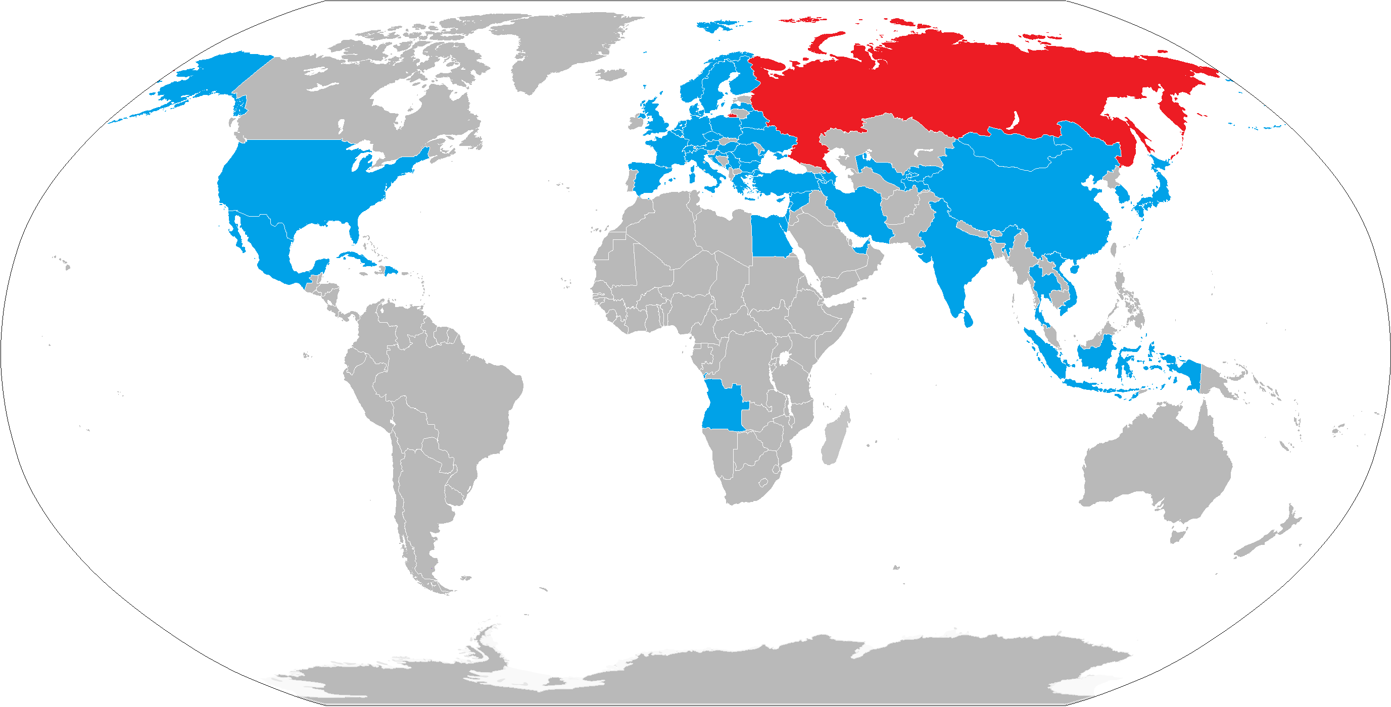 Aeroflot destinations